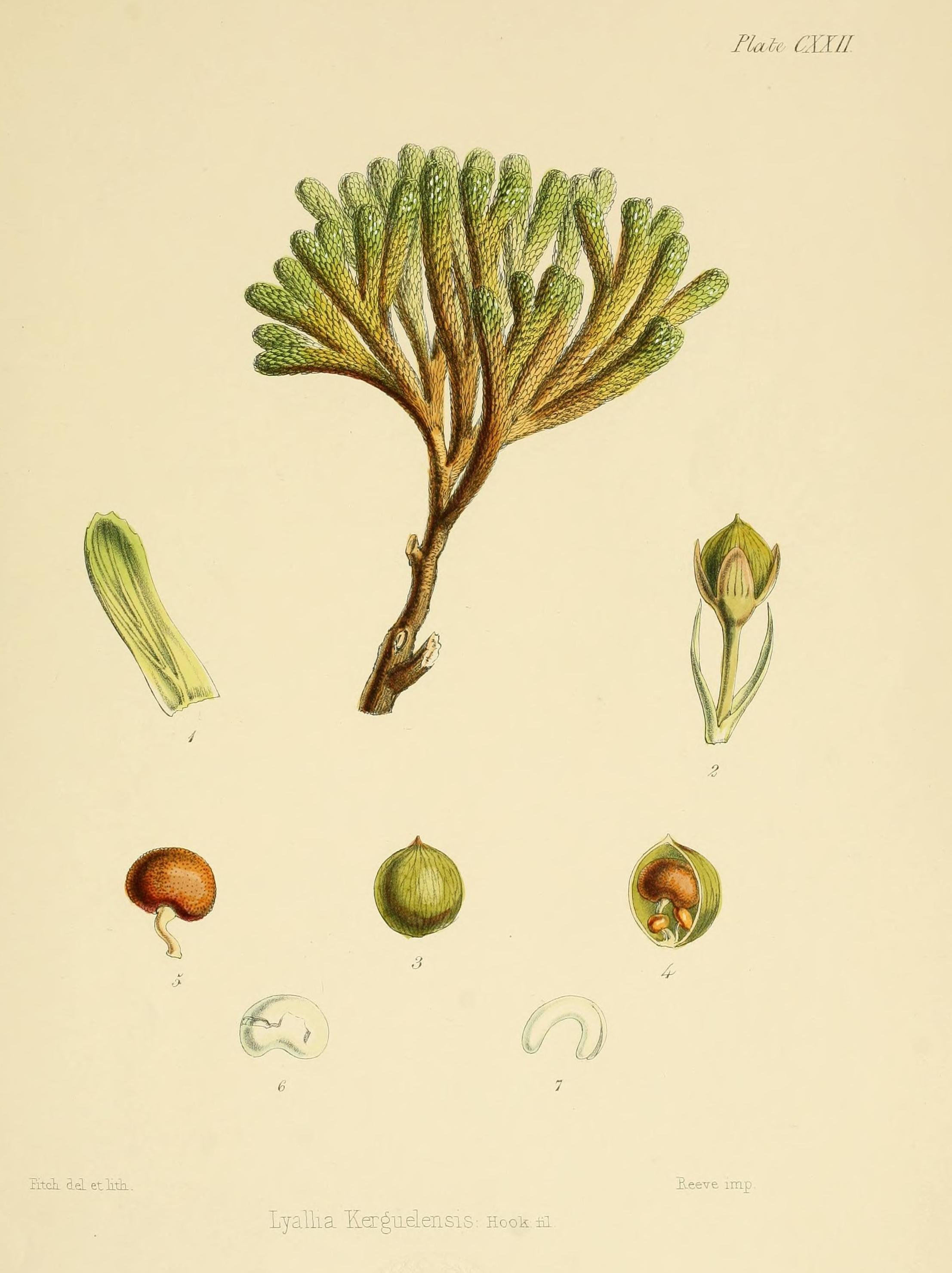 Lyallia kerguelensis : original first published plate (CXXII) in Botany of Antarctic by Joseph Dalton Hooker